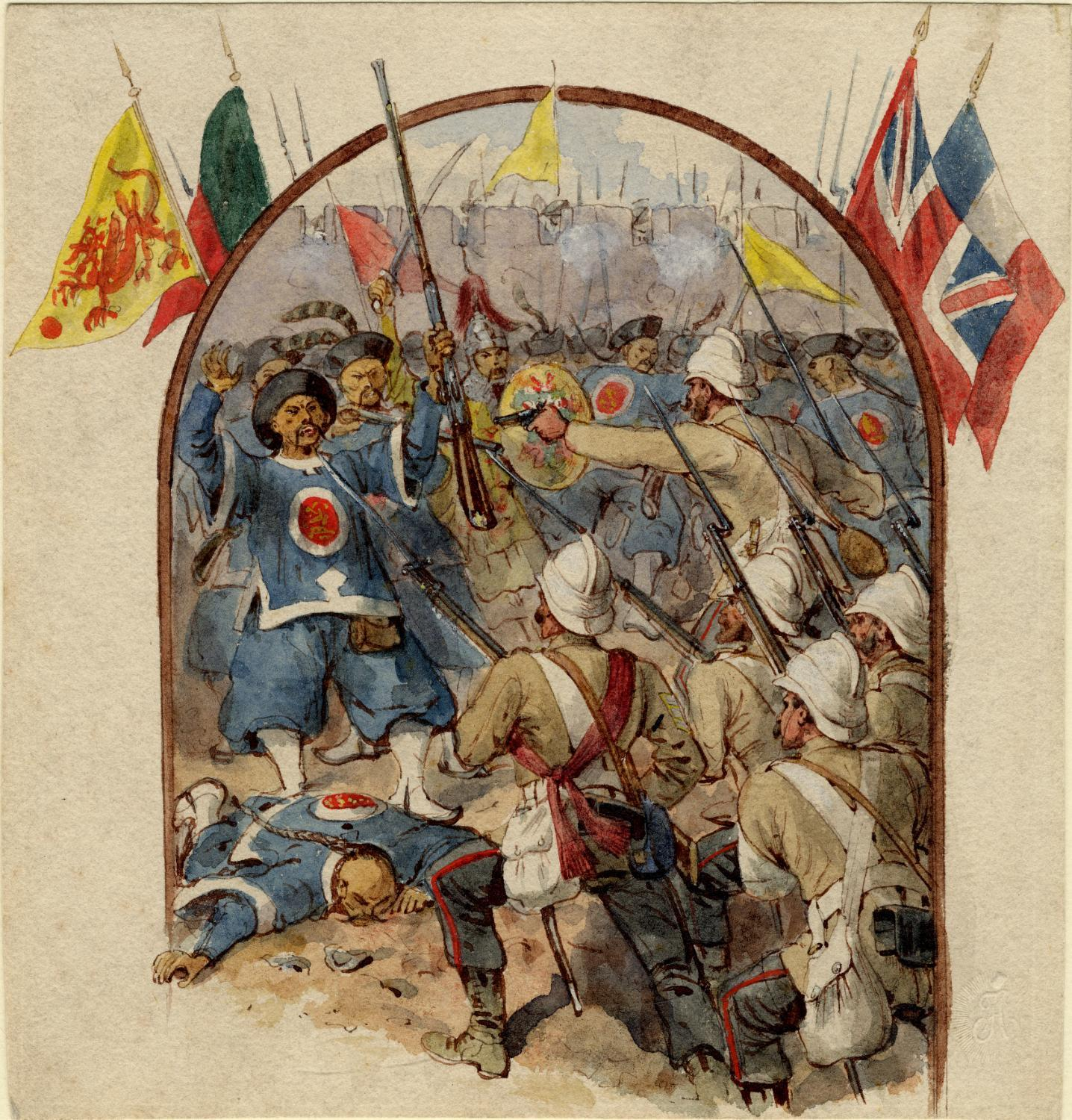 The 67th foot of british troops at the storming of the Taku Forts during the third invasion in 1860.